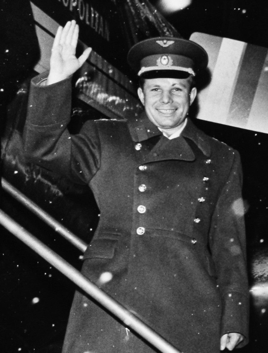 Yuri Gagarin boarding a SAS Scandinavian Airlines Convair 440 for a flight to Göteborg